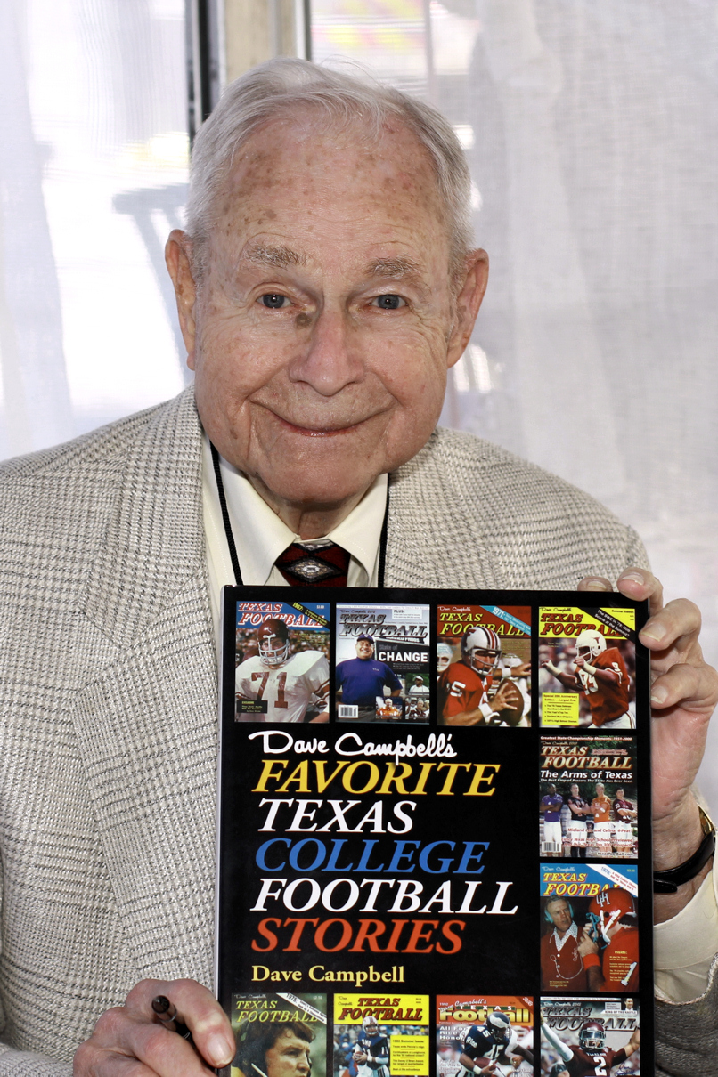 Author Dave Campbell at the 2019 Texas Book Festival in Austin, Texas, United States.